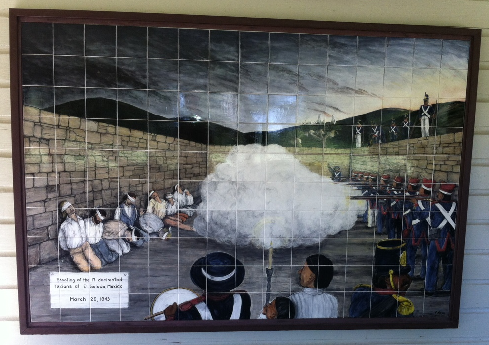 This is a photo of a depiction of the execution of 17 Texan prisoners March 25, 1843, at El Rancho Salado, Mexico, selected for death by a black bean lottery three months after the Battle of Mier.